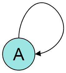 Autoregulation motif part of Network motif. I (GKFX) have converted it to PNG.